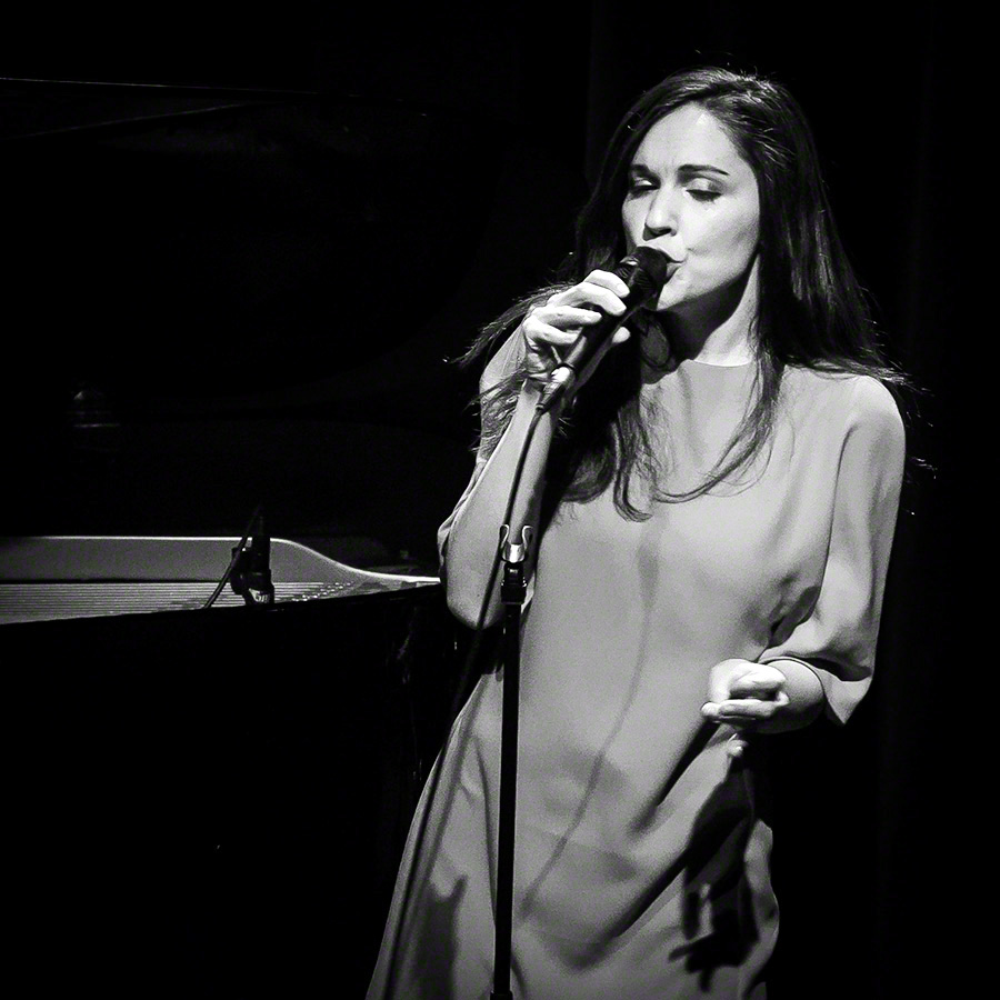 Tord Gustavsen performs at Cosmopolite Scene in Oslo during Vinterjazz 2016. Simin Tander on vocal and Jarle Vespestad on drums.